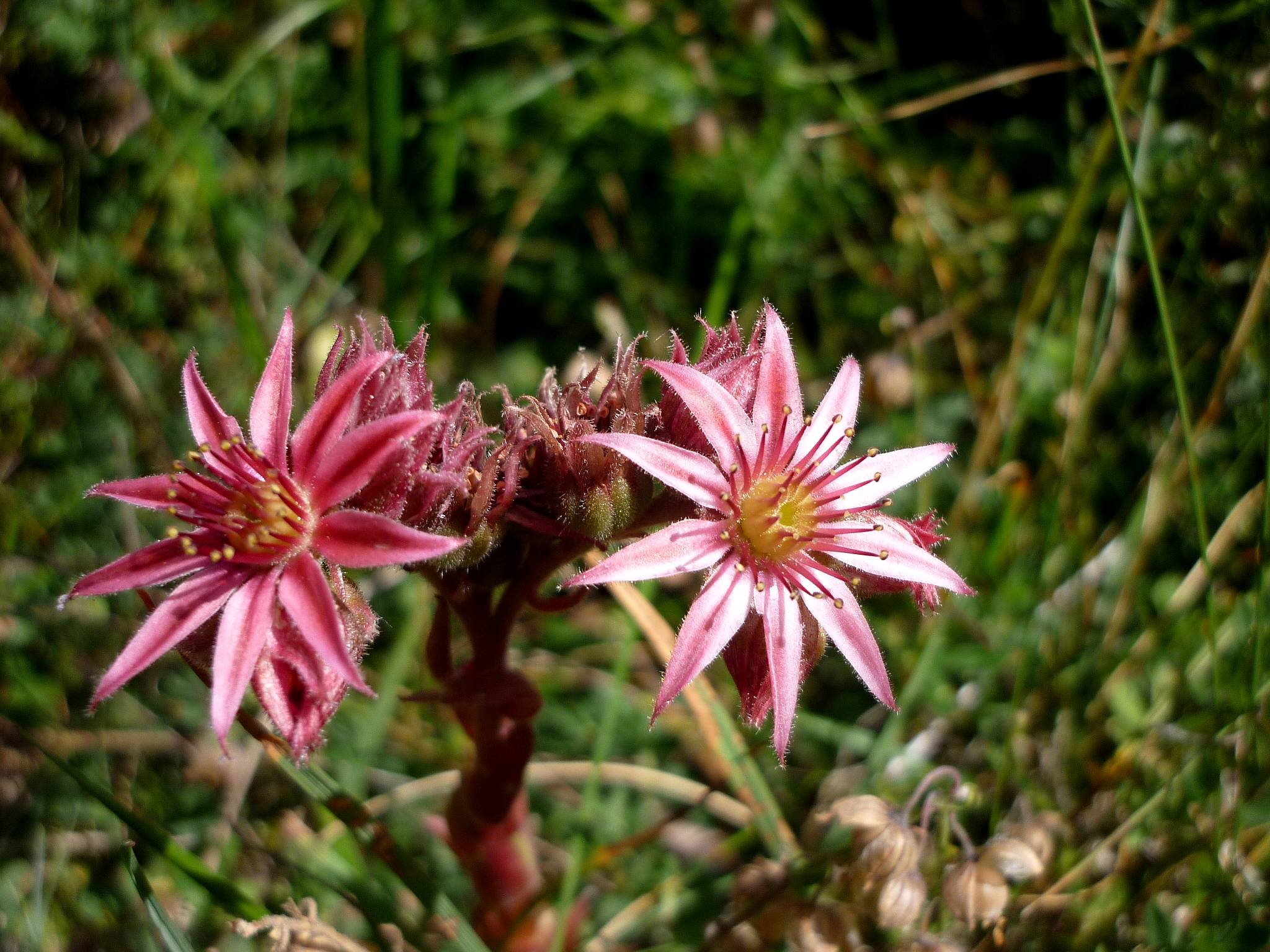 Sempervivum montanum. Near Sallente (Pallars Jussà - Catalunya. To 1.800 m altitude